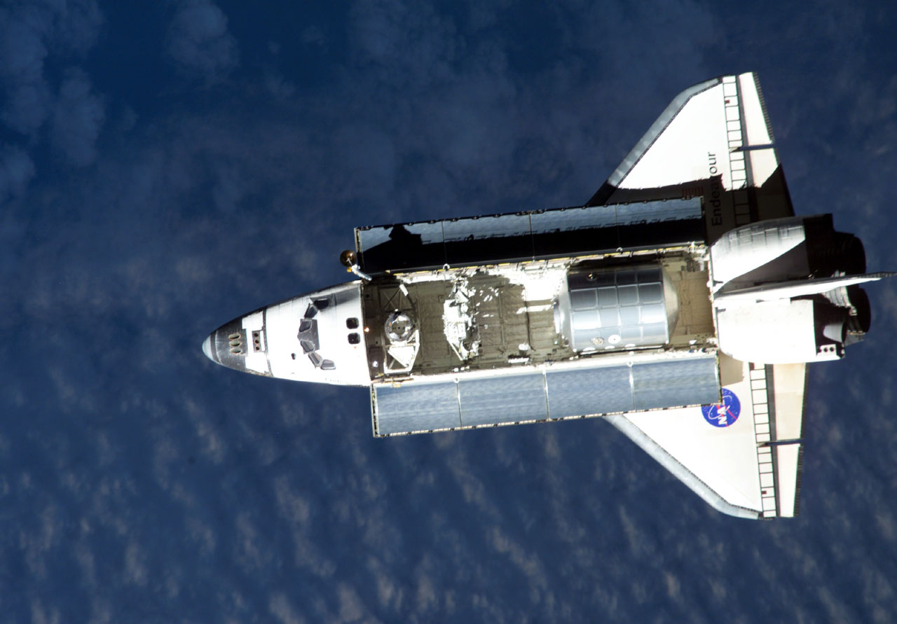 Space Shuttle Endeavour on flight STS-111 as seen from the International Space Station